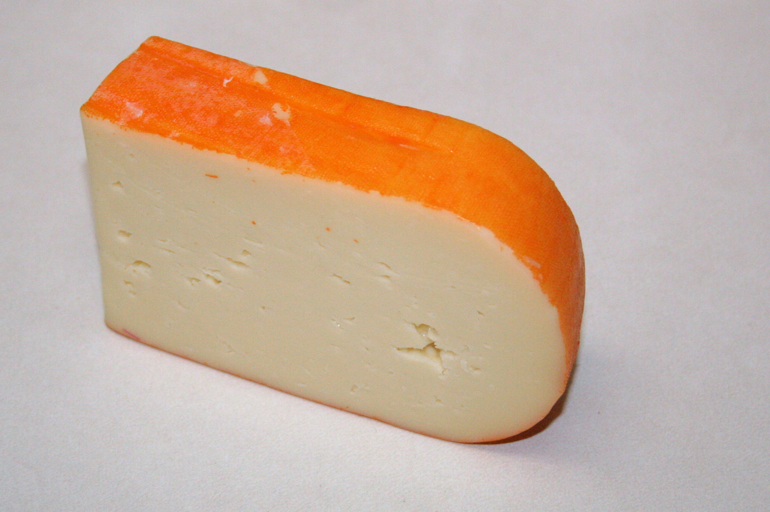 A slice of Mahón cheese